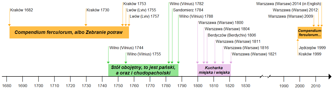 Timeline of Compendium ferculorum editions